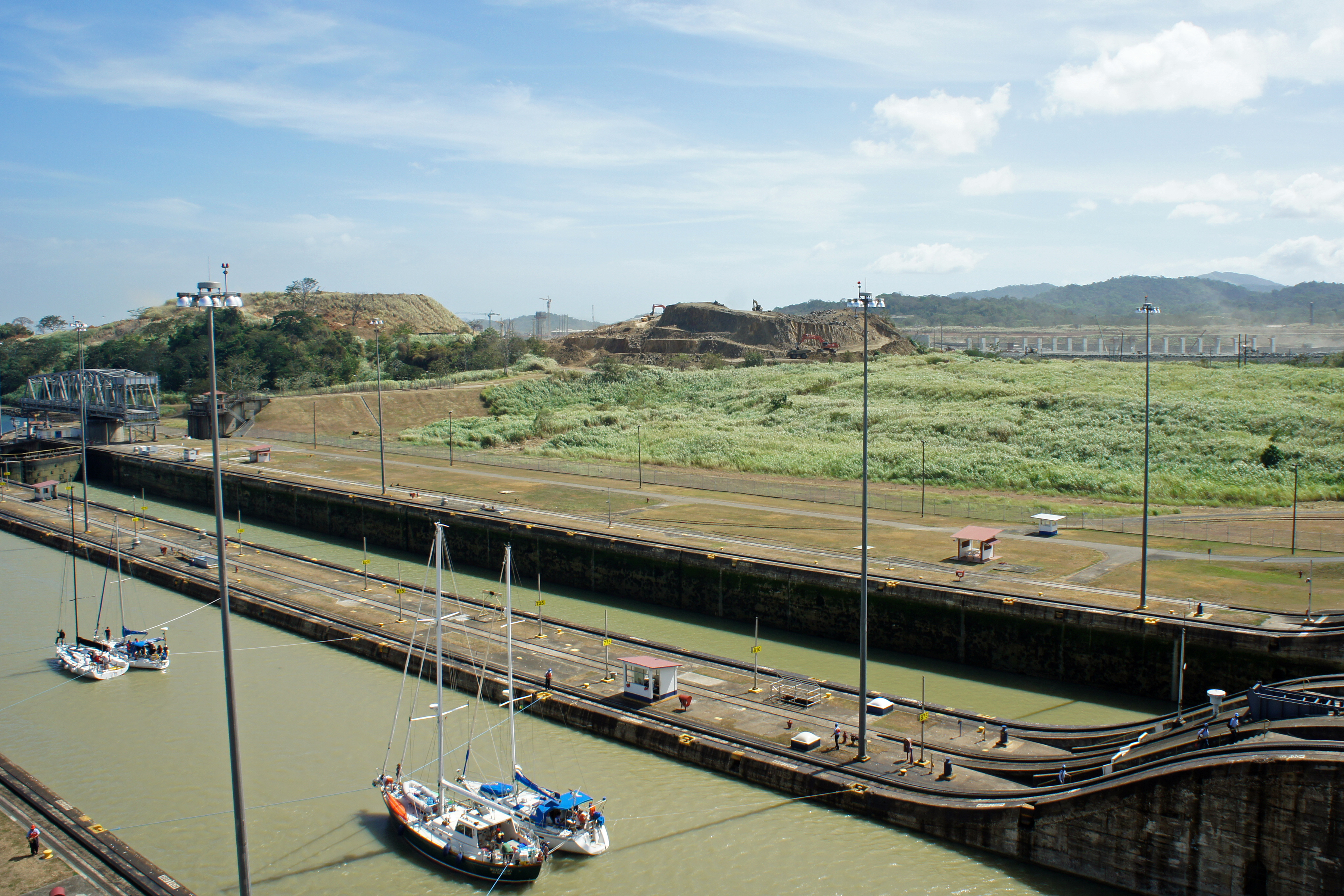 Construction site of the new third set of locks (in the background) viewed from the existing Miraflores Locks